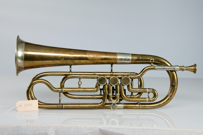 Saxhorn/Alto horn. I V WAHL, 1875 - 1887